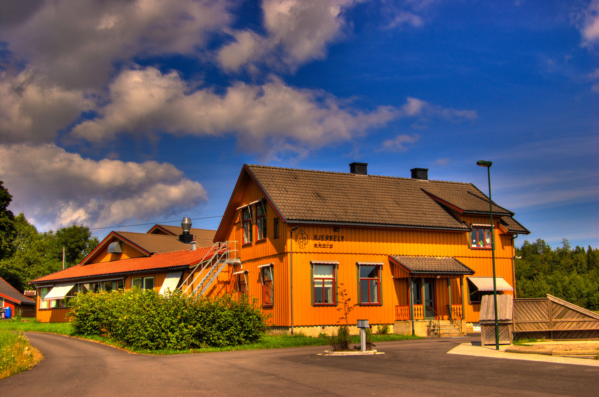 Bjerkely skole, a private primary school in Re, Vestfold, Norway